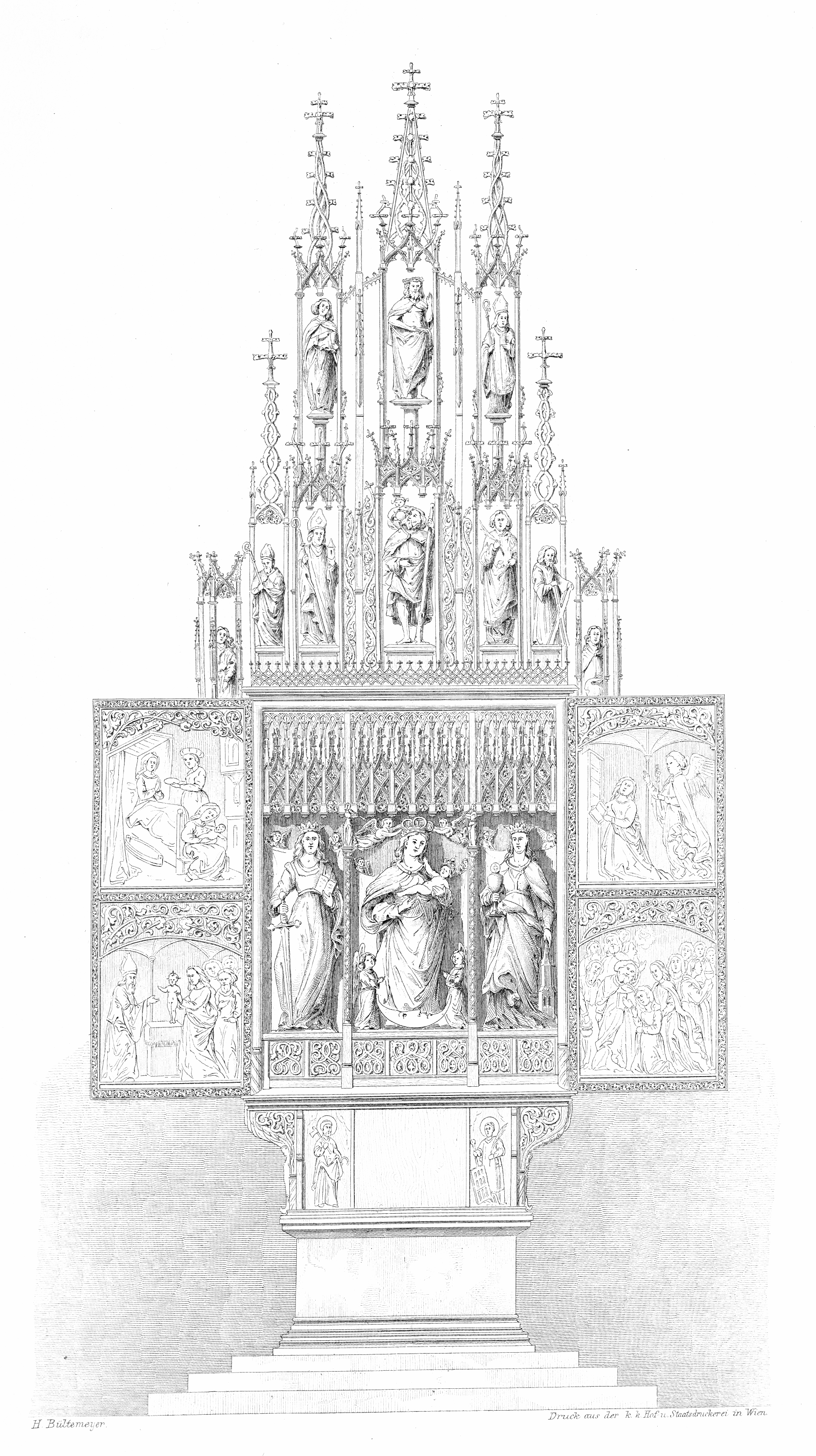 Bild aus dem Artikel: Der gothische Flügelaltar zu Hallstadt in Oberösterreich aus den Mittheilungen der kaiserl. königl. Central-Commission zur Erforschung und Erhaltung der Baudenkmale Band 3, 1858. Scanprojekt Bundesdenkmalamt Österreich This scan or this PDF-file was created within the Austrian Wikipedia-project Denkmalpflege Österreich (German only) supported by Wikimedia Germany and Wikimedia Austria as part of the Wikipedia community-project to collect public domain documents from the library of the Heritage Monuments Board of Austria. This document describes or depicts an object which is located in Austria today. Texts are written in German language. Send requests for uncompressed scans to Hubertl. This work is in the public domain in the United States, and those countries with a copyright term of life of the author plus 100 years or less. This file has been identified as being free of known restrictions under copyright law, including all related and neighboring rights.